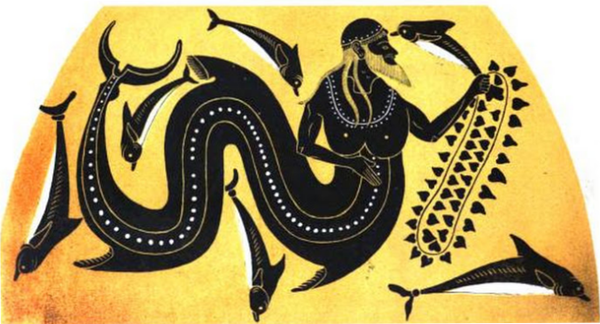 Nereus